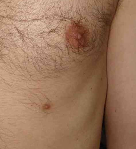 Supernumerary third nipple (male)